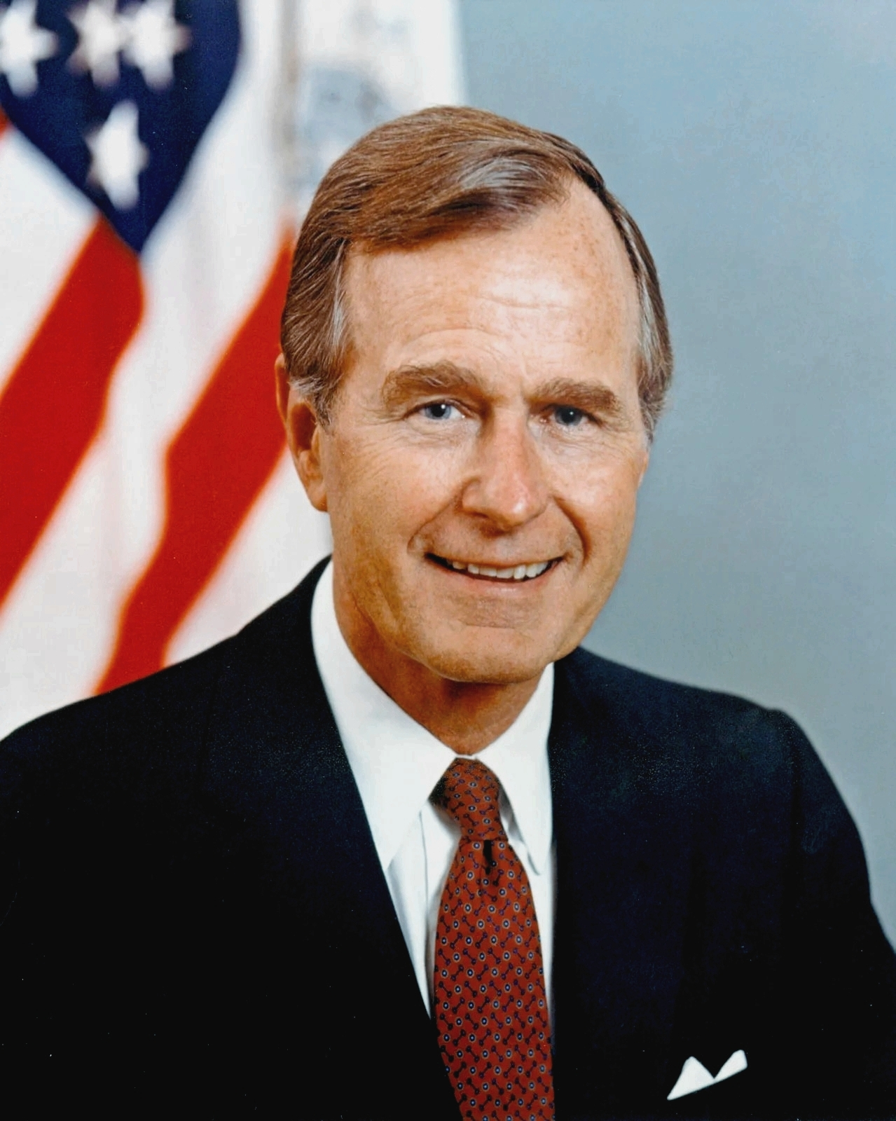 Vice President George H. W. Bush official portrait